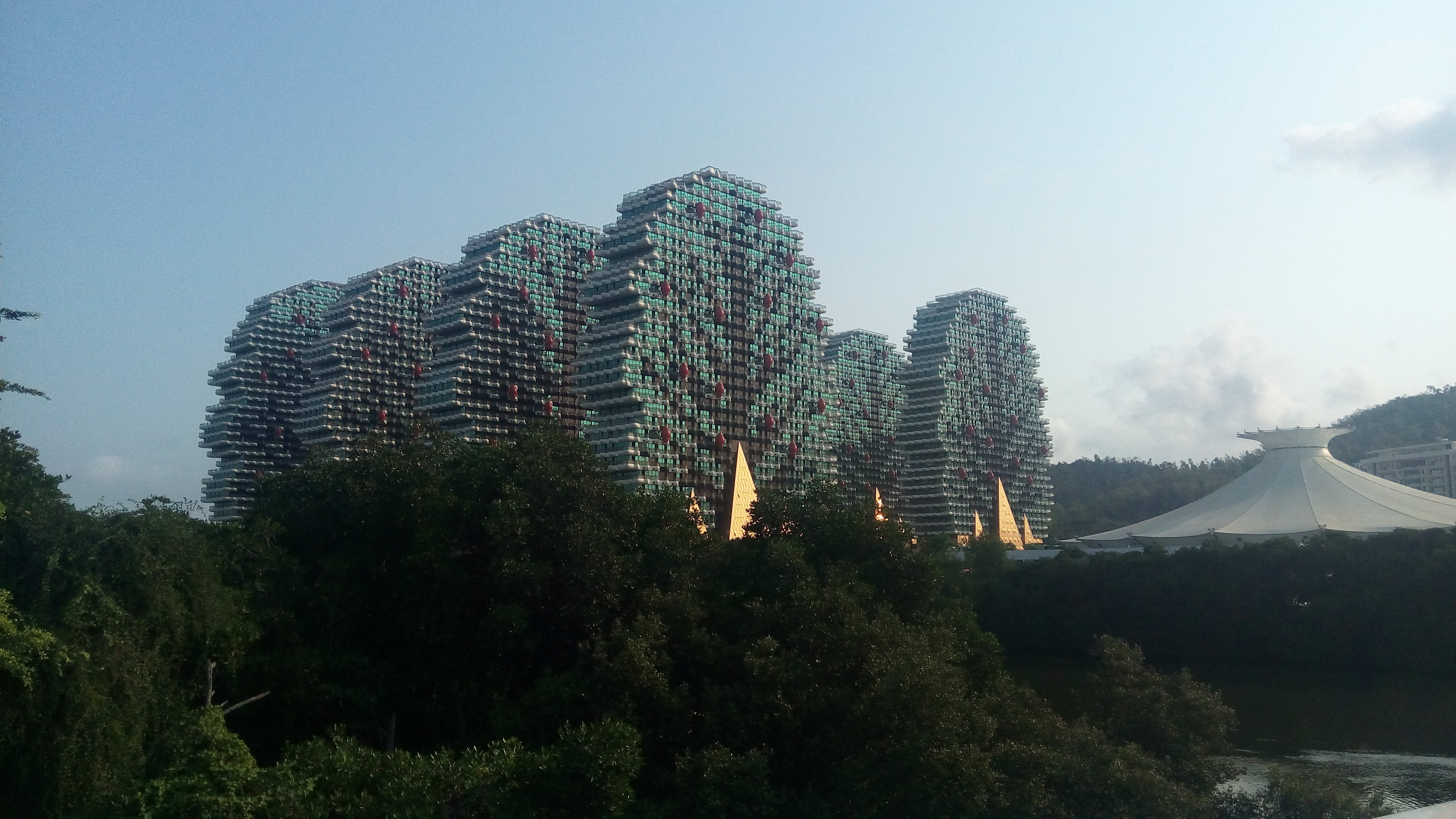 Sanya Beauty Crown Big Tree Mansion